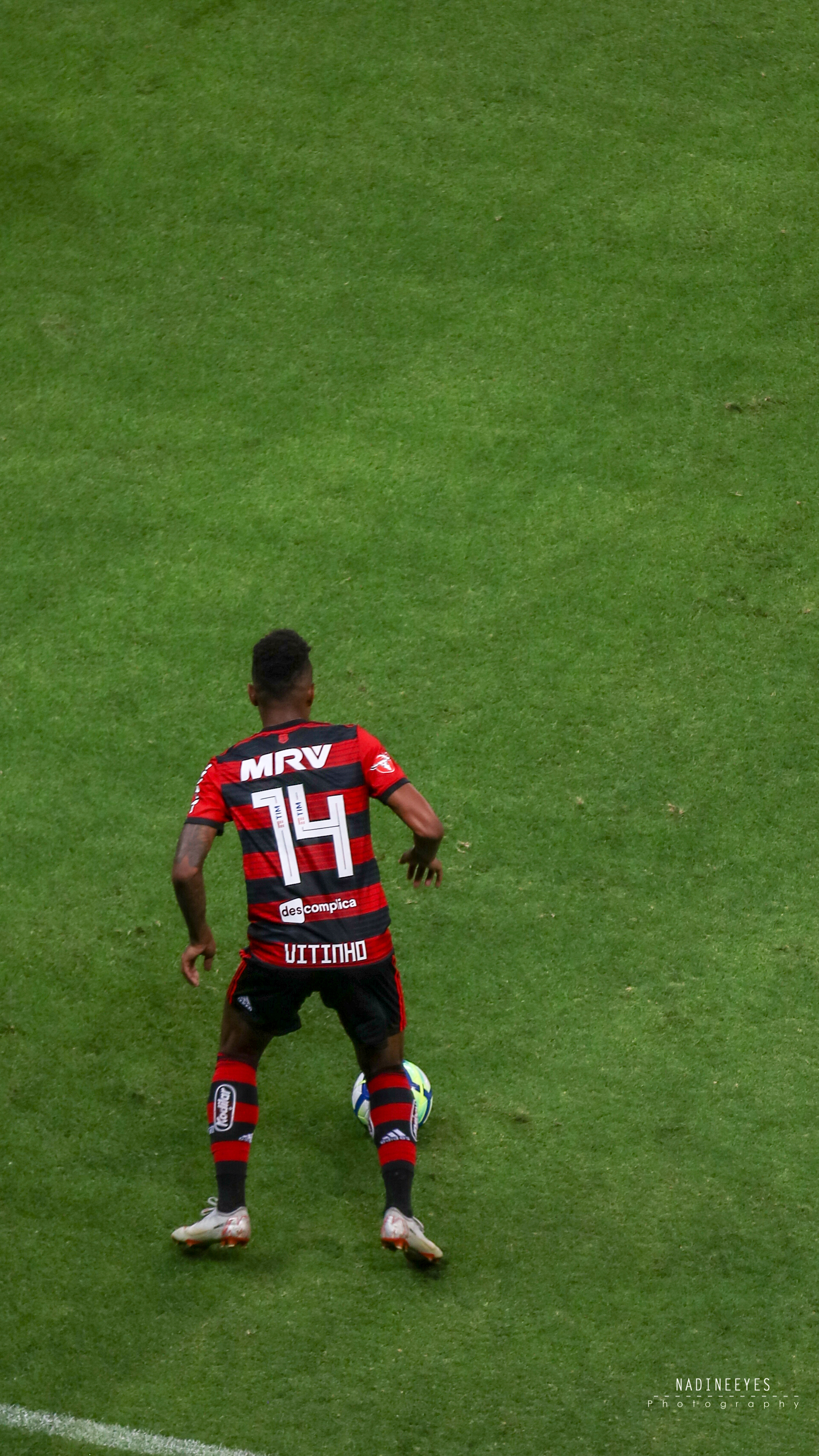 2018 Campeonato Brasileiro Série A – Flamengo v Vasco, 15 September 2018